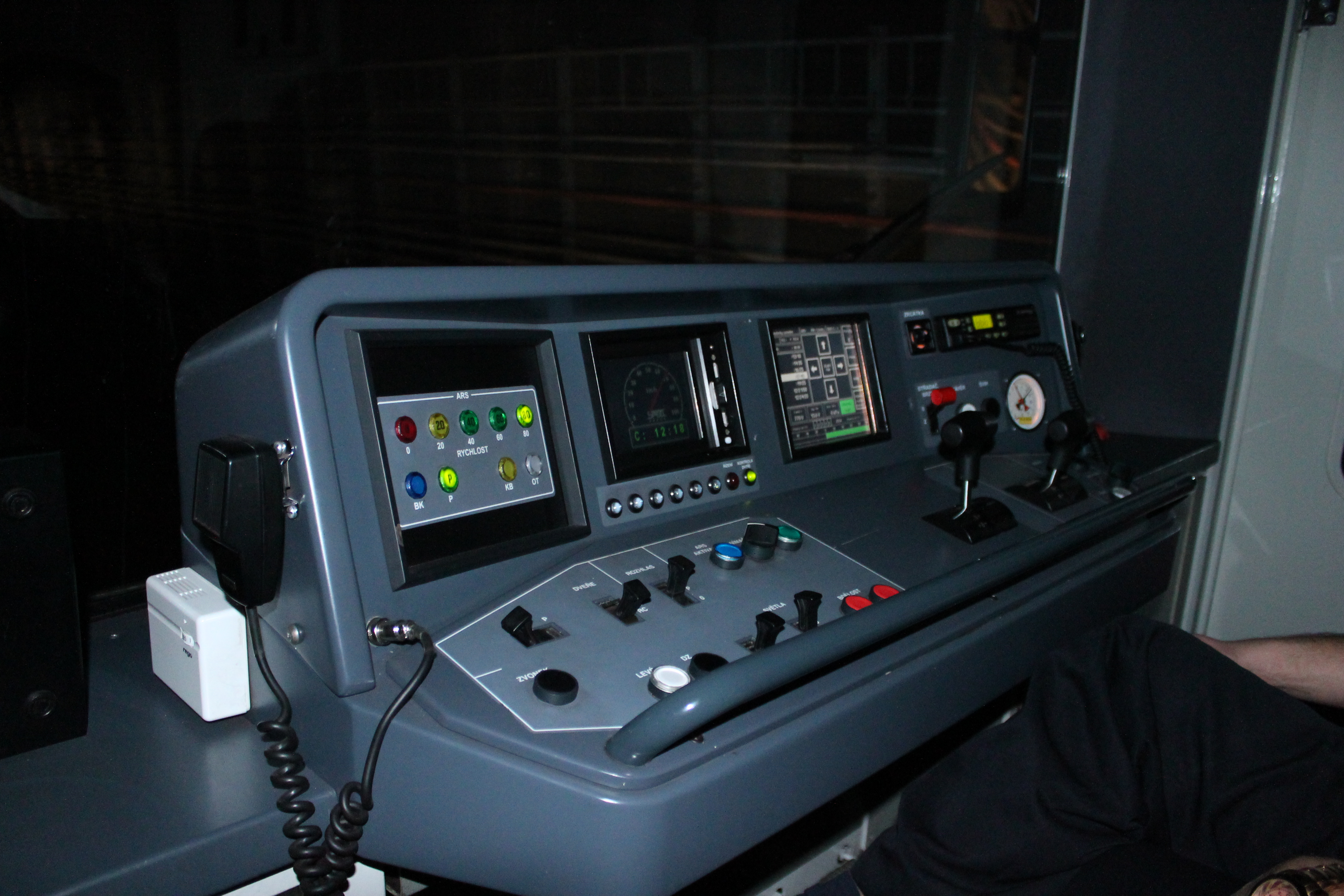 Place of engine-driver of metro train 81-71M in Prague with train protection system ARS